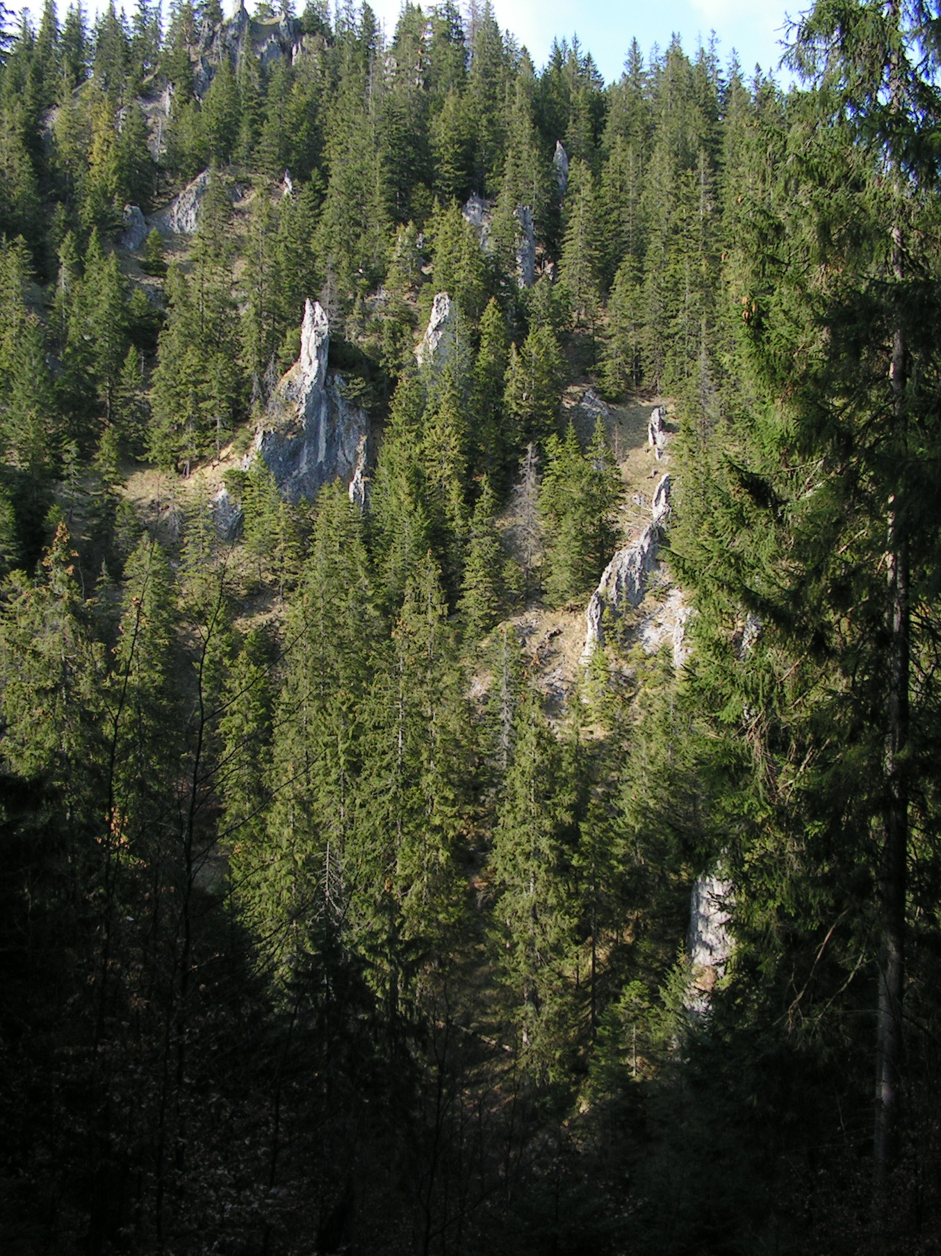 Dolomite rocks on the slopes of Małe Koryciska.